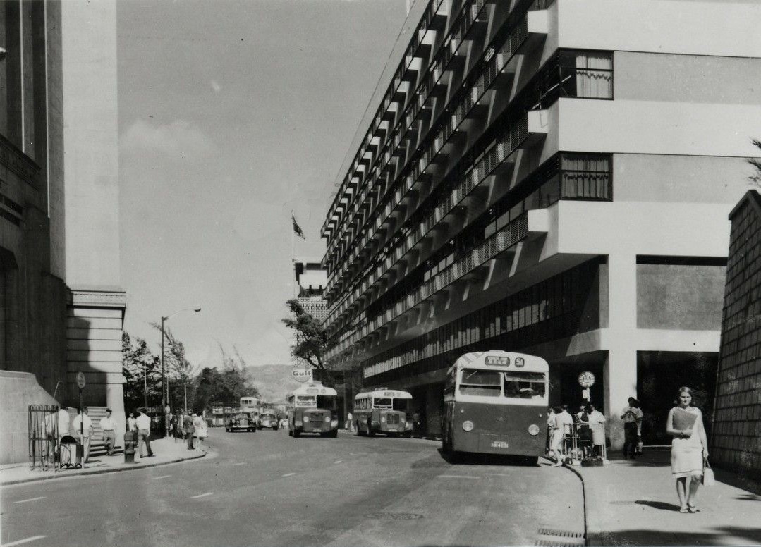 The Beaconsfield House was built in 1960, later demolished in 1995 to reserve space for Cheung Kong Center.